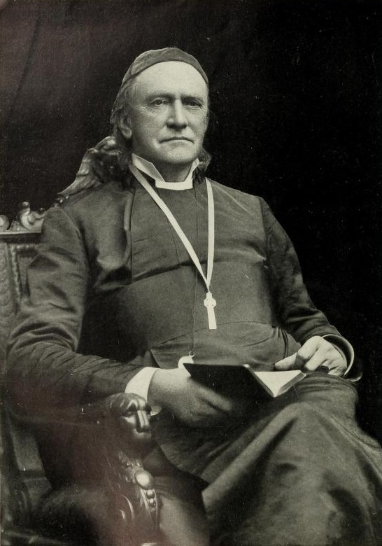 Portrait of Henry Benjamin Whipple